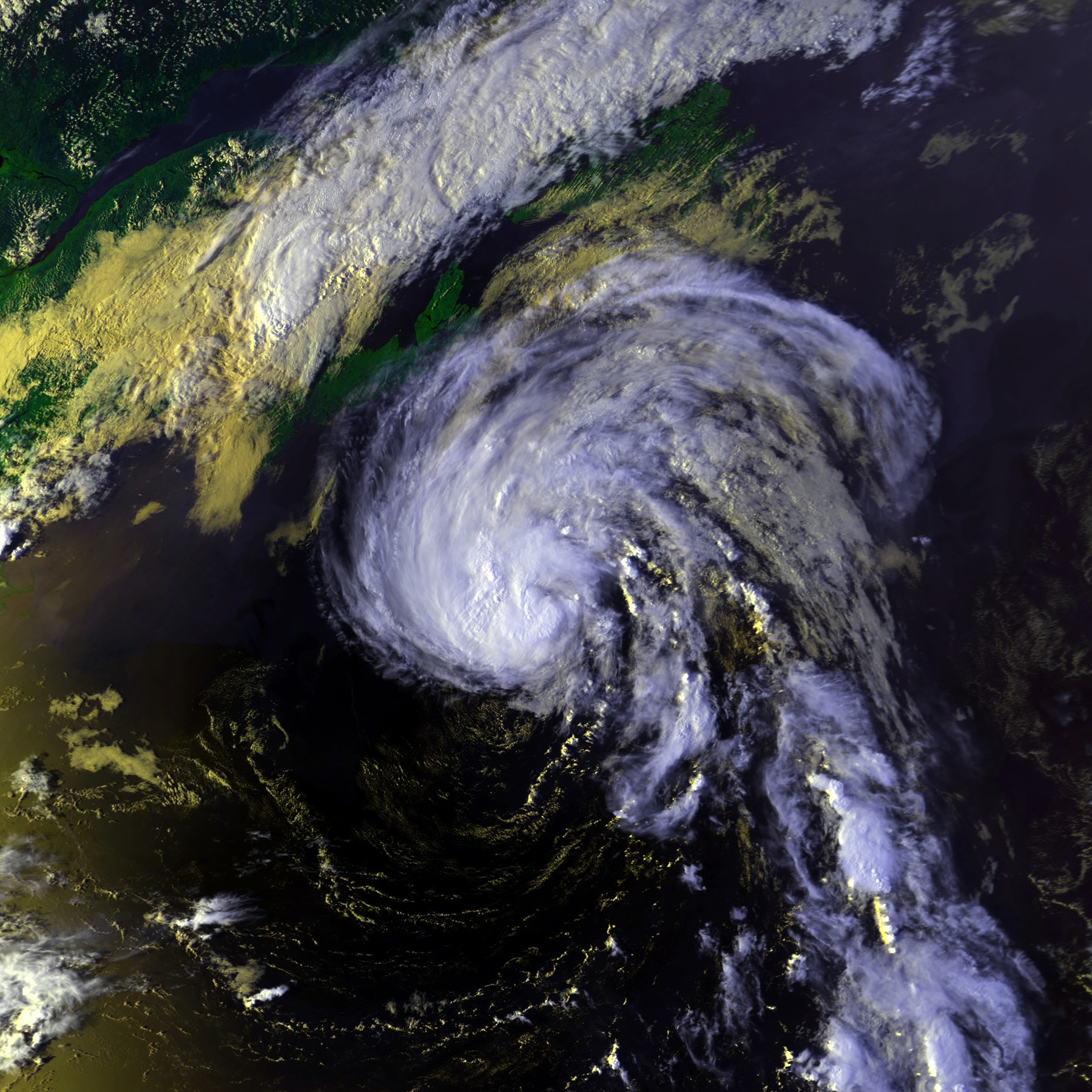 Tropical Storm Dean near peak intensity on August 27 at 2040 UTC. This image was produced from data from NOAA-14, provided by NOAA. Maximum sustained winds were around 70 mph at this time.